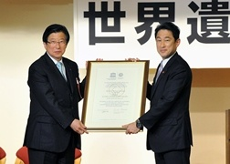 Heita Kawakatsu, Governor of Shizuoka Prefecture, was given the replica of the Certificate of Inscription on the List of World Heritage from Fumio Kishida, Minister for Foreign Affairs, at the Ministry of Foreign Affairs in Chiyoda Ward, Tōkyō Metropolis on April 21, 2014.